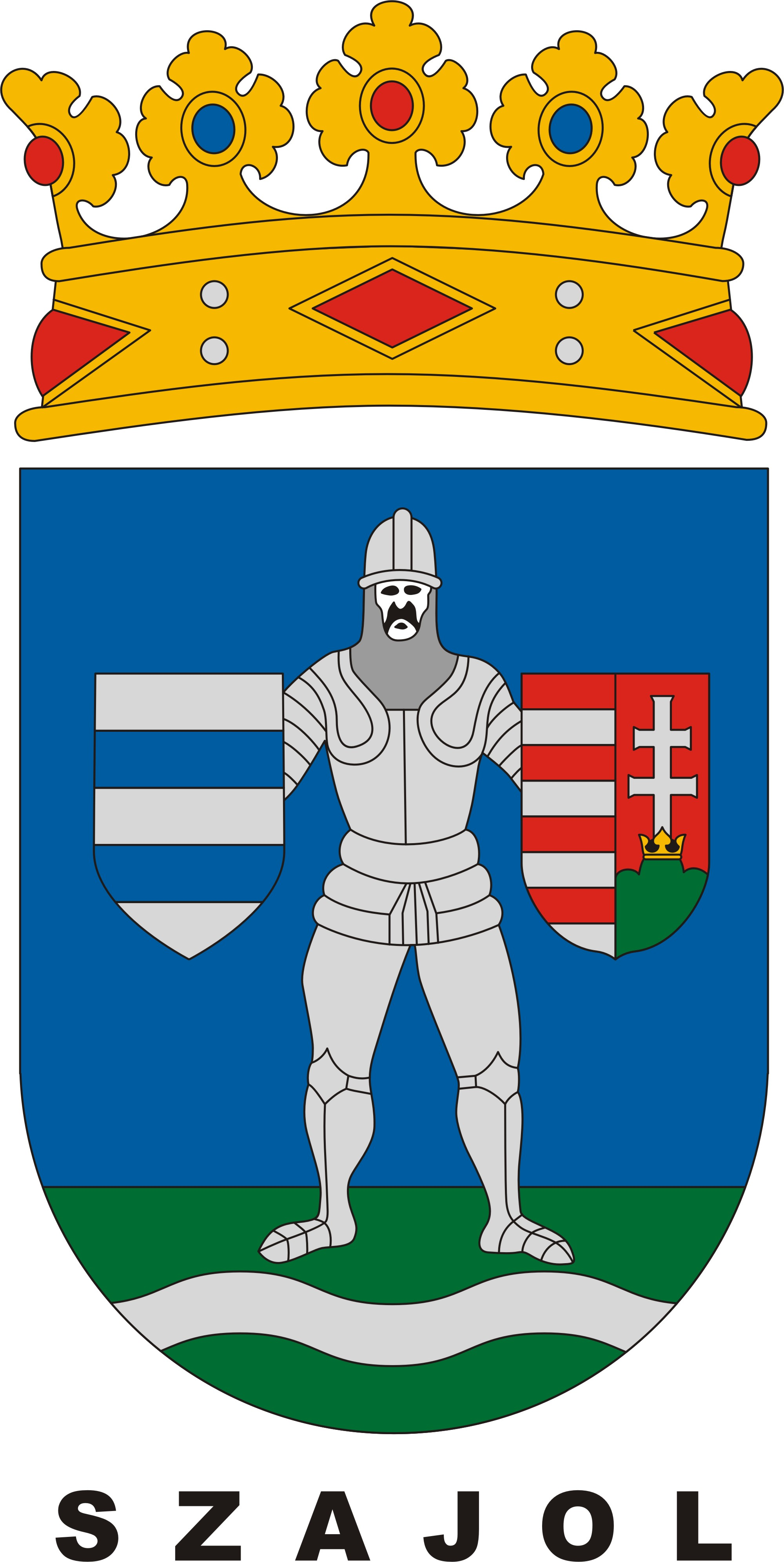 Coat of arms of Szajol, Hungary